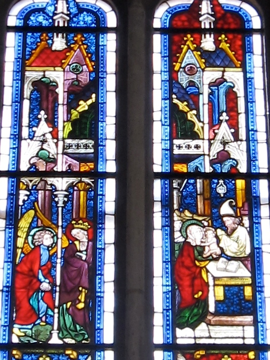 Stained glass window, ca. 1390 Austrian; From the Schlosskapelle, Ebreichsdorf, Austria Pot-metal and colorless glass with silver stain and vitreous paint Each lancet 11 ft. 8 in. x 12 1/8 in. (357.2 x 30.8 cm) The Cloisters Collection, 1986 (1986.285.1,2)